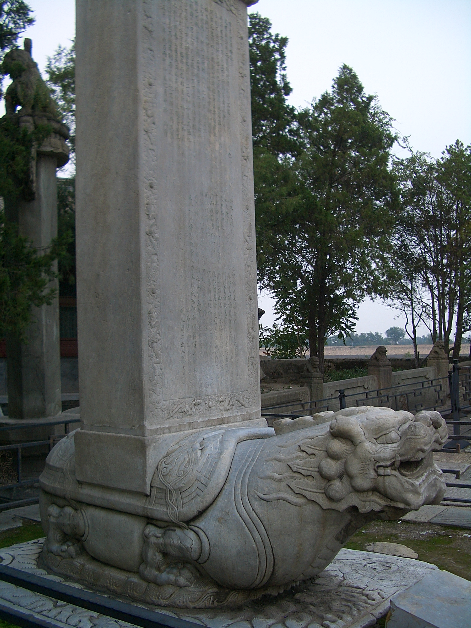 A stele, built on top of a magnificently wrought bixi (stone tortoise), commemorating Qianlong Emperor's rebuilding Lugou Bridge (a.k.a. Marco Polo Bridge) in the 50th year of his reign (ca. 1785). It is located near the western end of the bridge, and is much less eroded than the other bixi-supported stele (at the opposite end of the bridge).